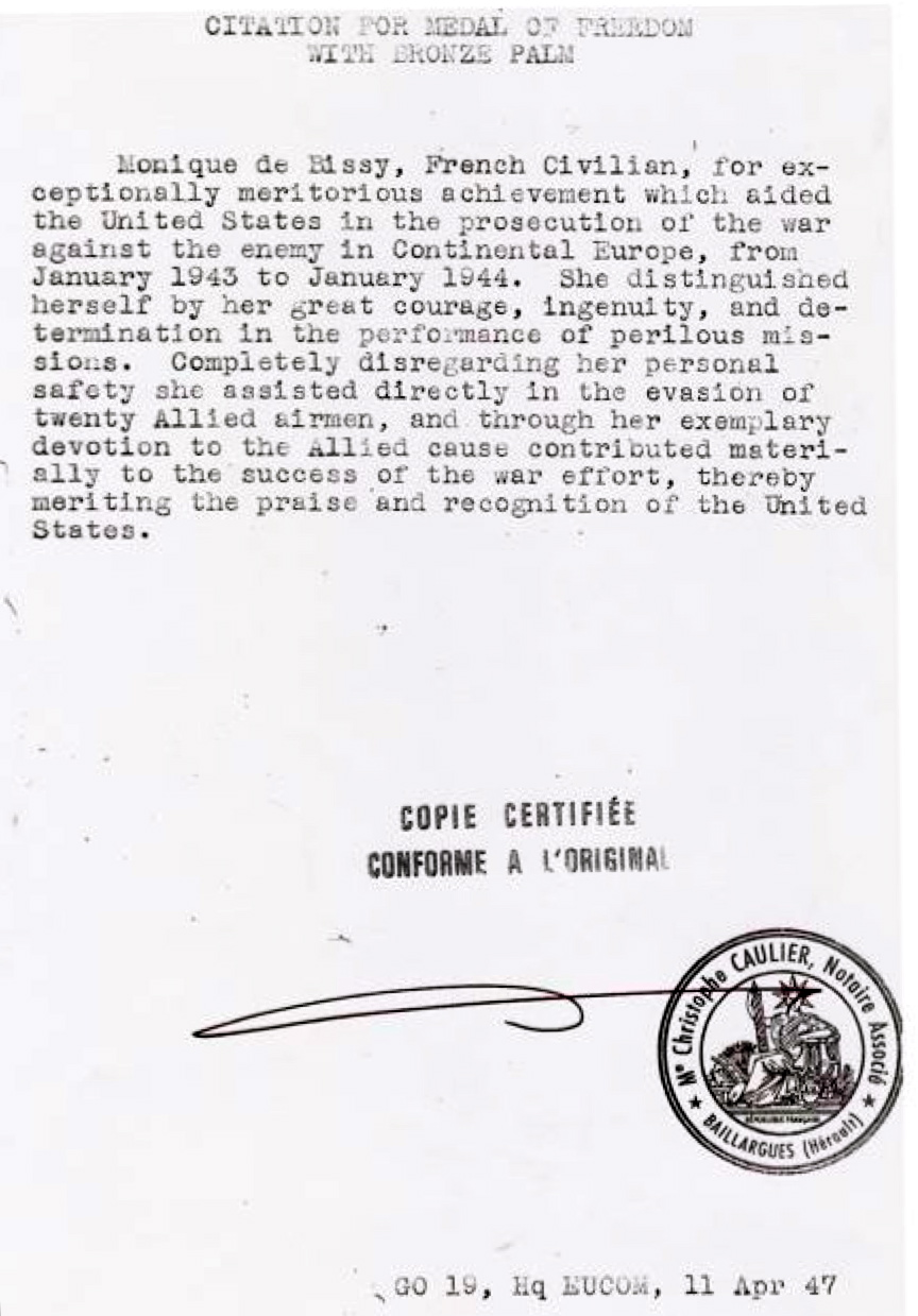 Citation of Monique de Bissy for Medal of Freedom for acts of courage during WWII.